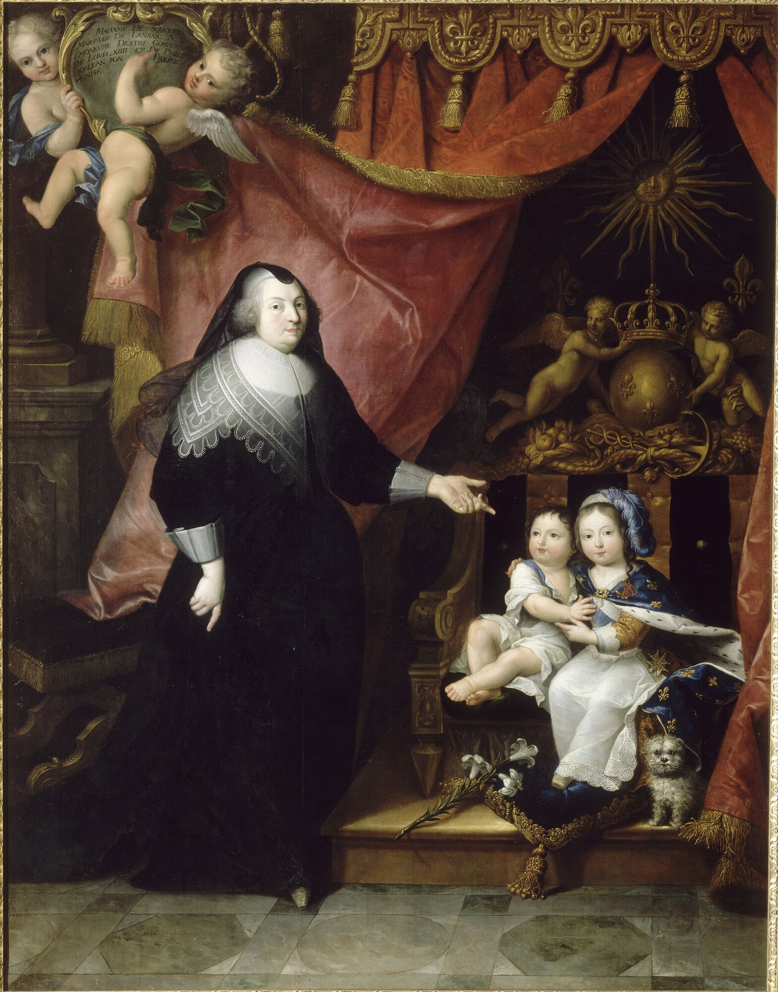 The young Louis XIV with his brother Philippe and his governess madame Lansac